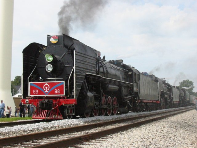 Triple-headed steam excursion train in Illinois; the excursion is part of the Riverway 2006 celebrations commemorating the opening of the first railroad bridge across the Mississippi River at Rock Island in 1856.